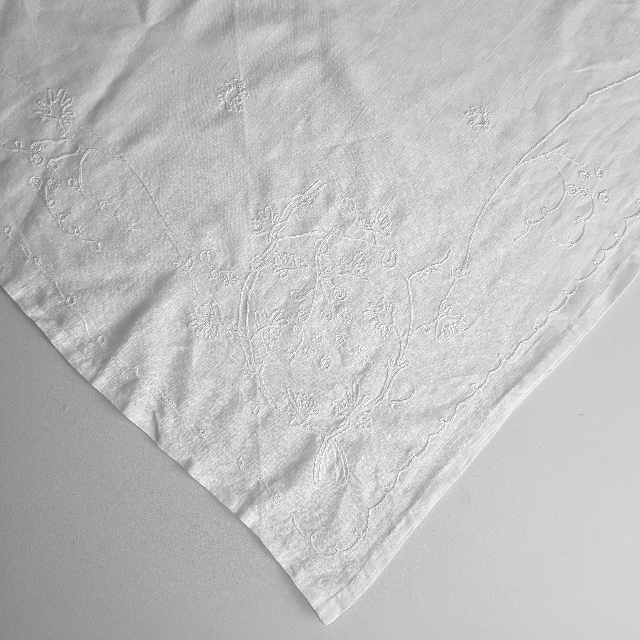 Forshaga-Grava Folk Costume Scarf Mid point